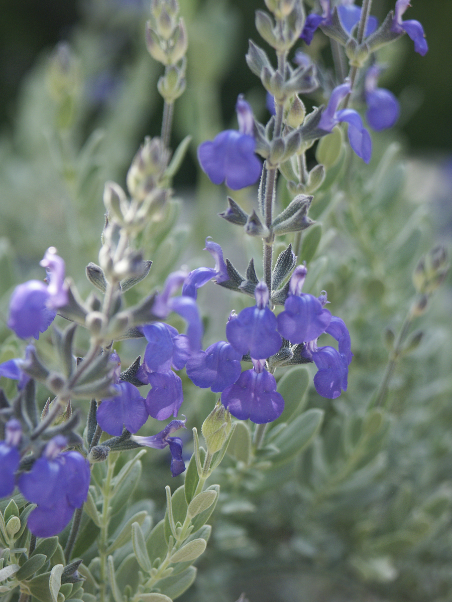 Lakeside Park, Oakland, CA